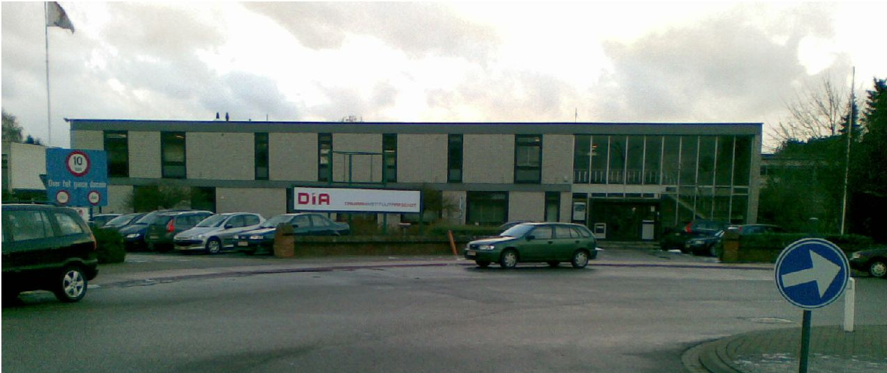 Damiaaninstituut Aarschot